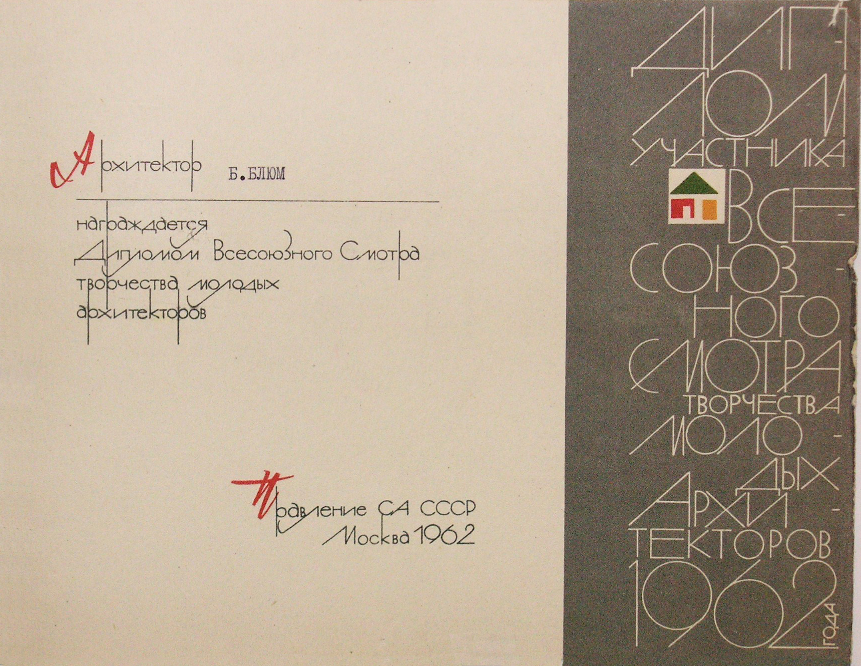 Certificate 1962